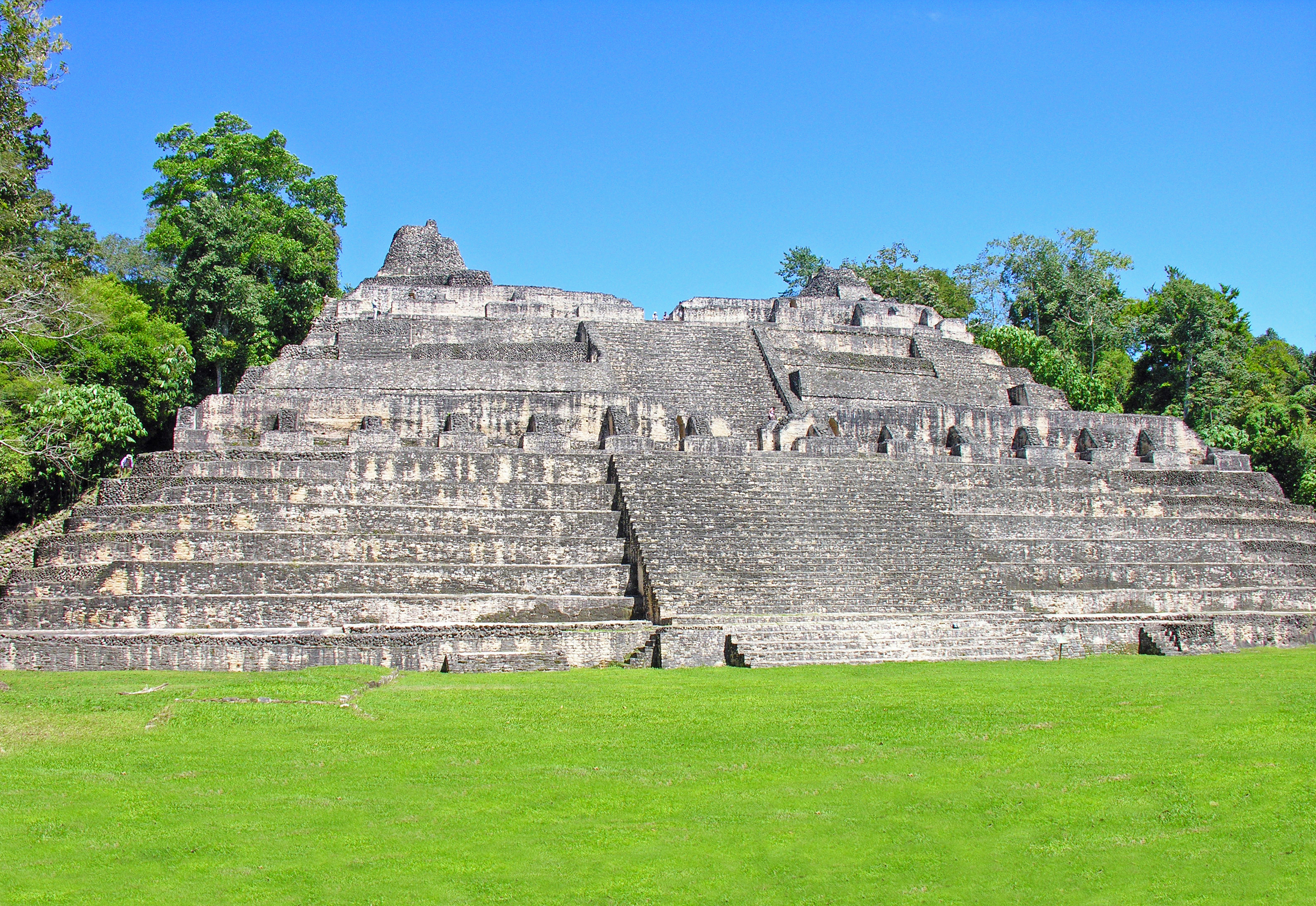 Caana (Sky Place) is Caracol’s tallest structure (and tallest man-made structure in Belize), and stands 140 feet above the plaza. Caracol is the largest Maya archaeological site in Belize, Central America. It was occupied as early as 1200 BC, Caracol has revealed an extensive and varied history. The true name of this ancient city, found in hieroglyphics throughout the site, has not yet been successfully deciphered. Its modern name is Spanish for "snail," the derivation of which is not entirely clear. One translation of the emblem glyph, indicates it may have been named "Place of Three Hills," but this is also uncertain. In 650 AD, a population exceeding 150,000 was occupying the epicenter of the site. It the population through the creation of an immense agricultural field system and through elaborate city planning. Caracol is noted not only for its size during the Maya Classic era (250-950 AD), but also for its prowess in war; this includes an 562 AD defeat of Tikal (Guatemala) and a subsequent conquest of Naranjo (Guatemala) in 631 AD. The ruins were first discovered by a logger in 1938, excavations did not begin until 1950. The most intensive work has taken place since 1985.